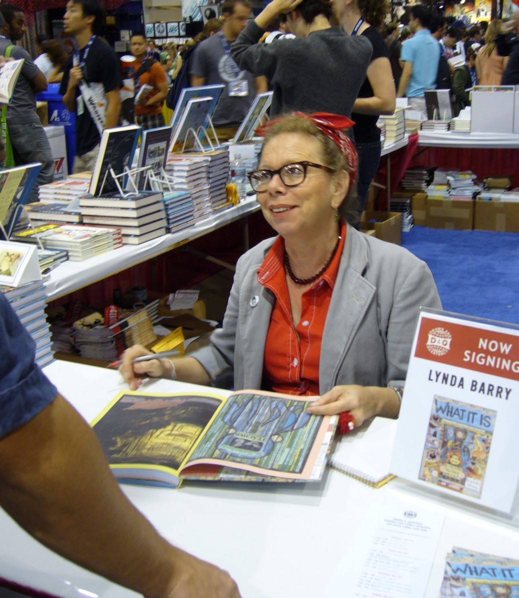 Lynda Barry was wonderful doing a panel on Friday that sort of was about her new book, sort of about the process of writing, and about how thrilled she was to be there. So I bought her book and had her sign it. I'm a pushover. We also got Ron English to sign his new book. Ron's new book is HEAVY.